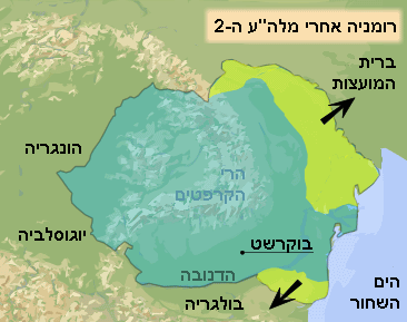 Romania after WWII map in Hebrew